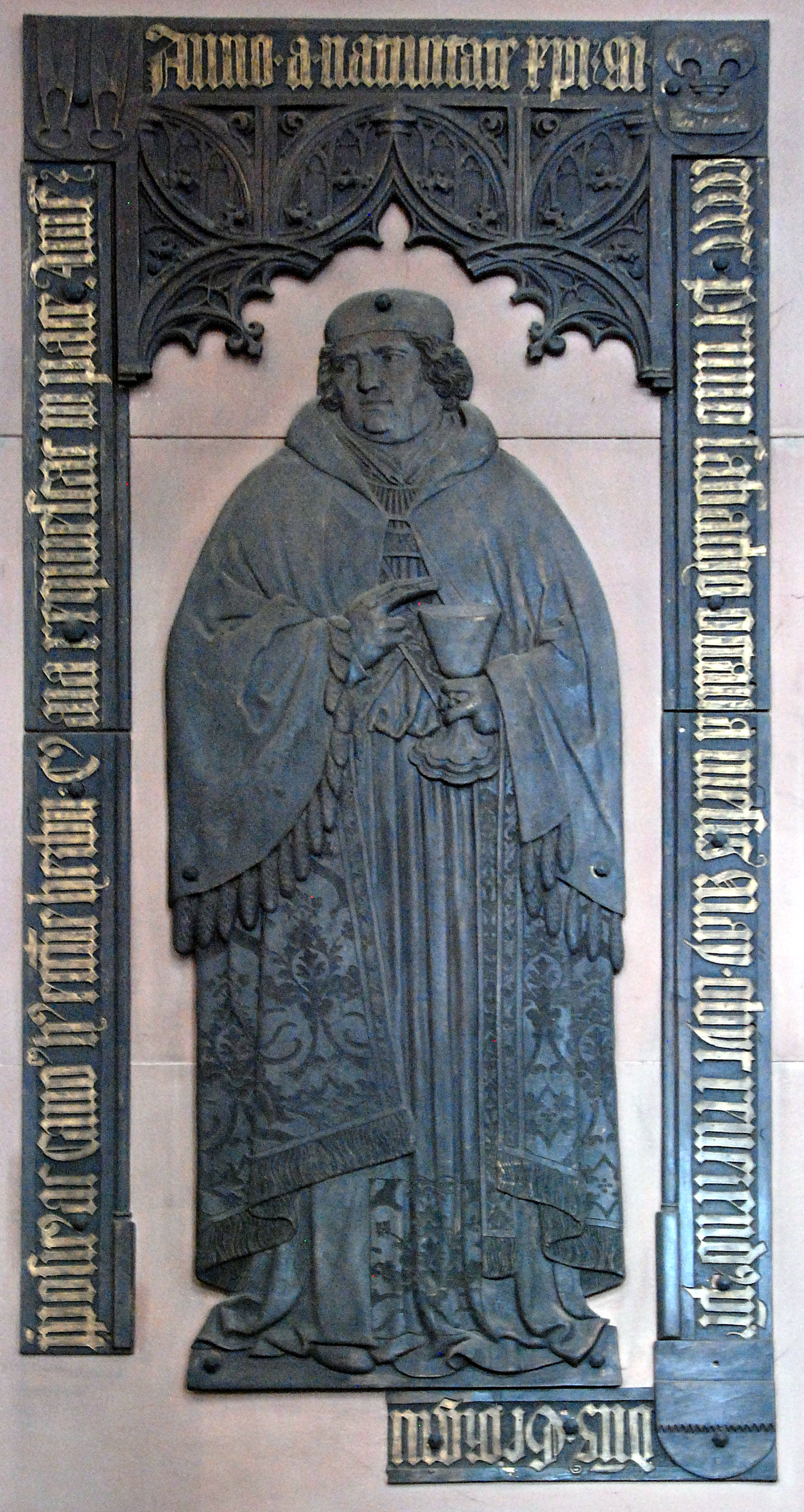 bronze plate of Georg von Giech, Wuerzburg Cathedral c. 1501